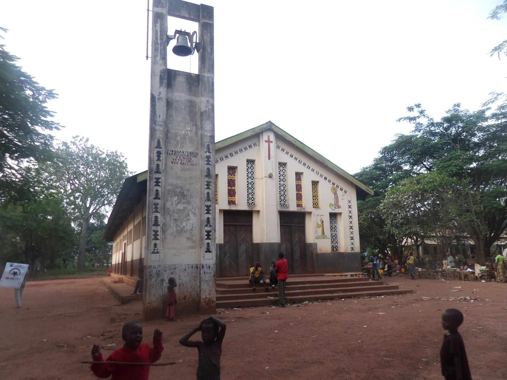 It's still a church This is an image with the theme "Africa on the Move or Transport" from: Central African Republic